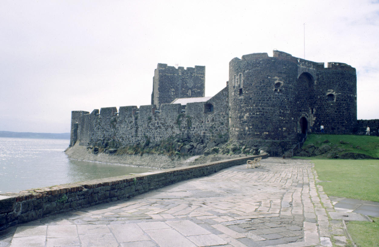 North-east side of Carrickfergus Castle, Northern Ireland, 1988